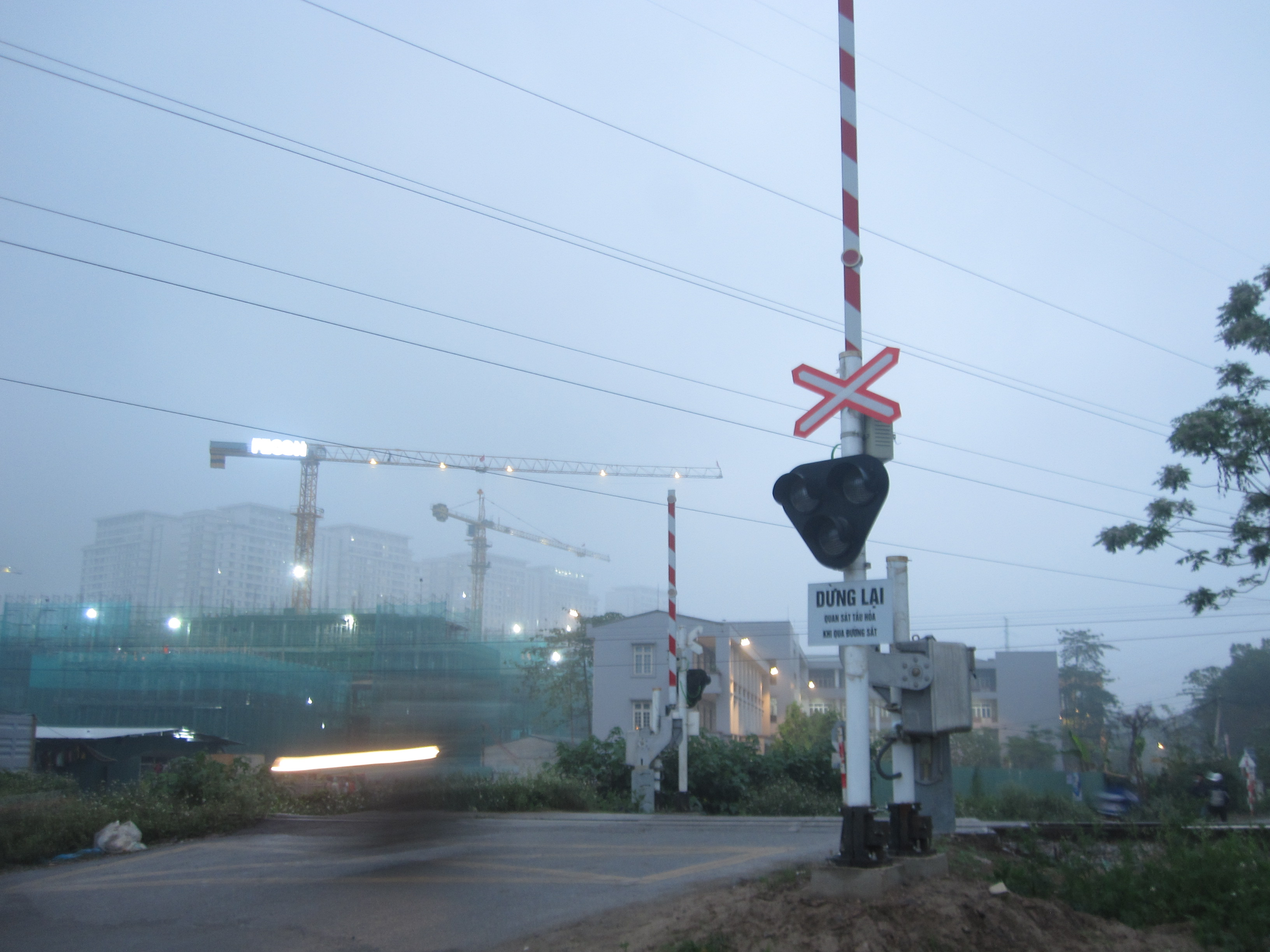 Vietnamese new crossing signals with lights & Safetran gates